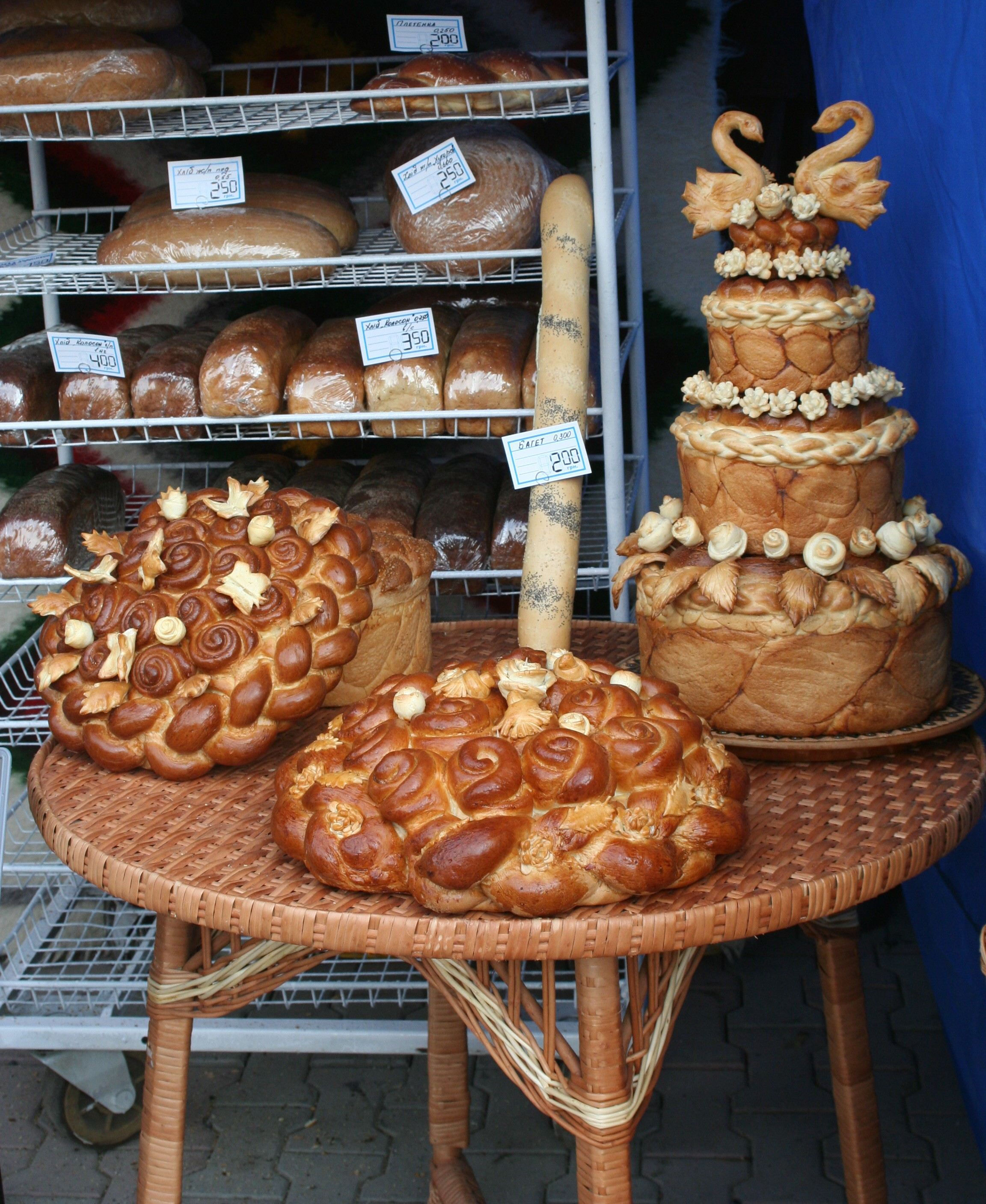 Several types of bread out the Bukowina area. 600 years anniversary ofChernivtsi Ukraine.